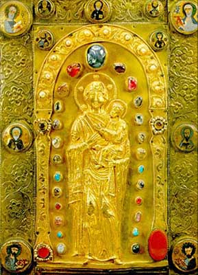 The Icon from Martvili (10th century)